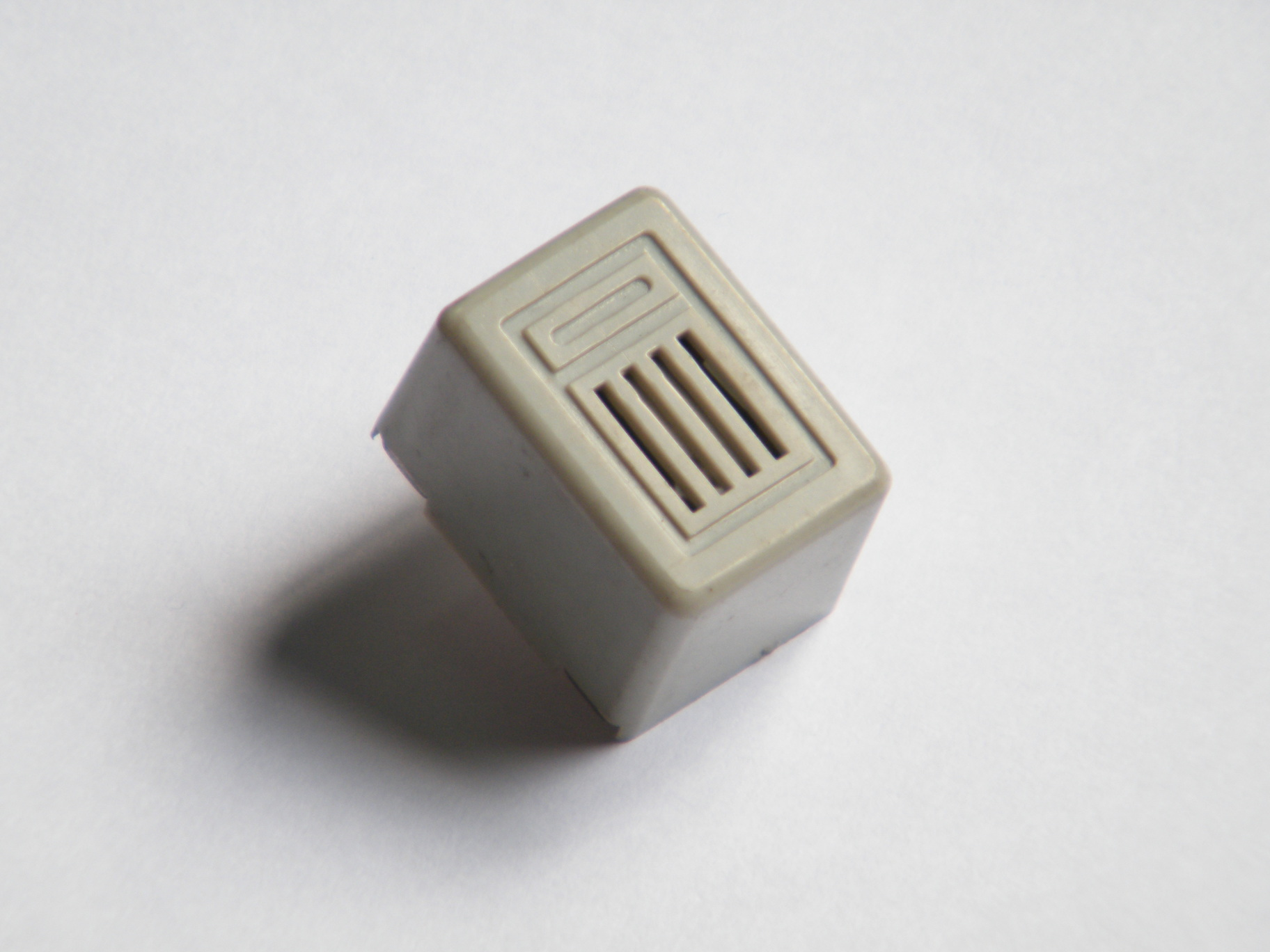 A small electronic buzzer Kingstate KS-3206 (rated for 6 V DC voltage). The buzzer is based on electromagnetic transducer, driven by internal transistor-based oscillator. Nominal output frequency: 400 Hz Physical dimension (WxLxH, excluding pins): 17.2 x 23.2 x 15.5 mm